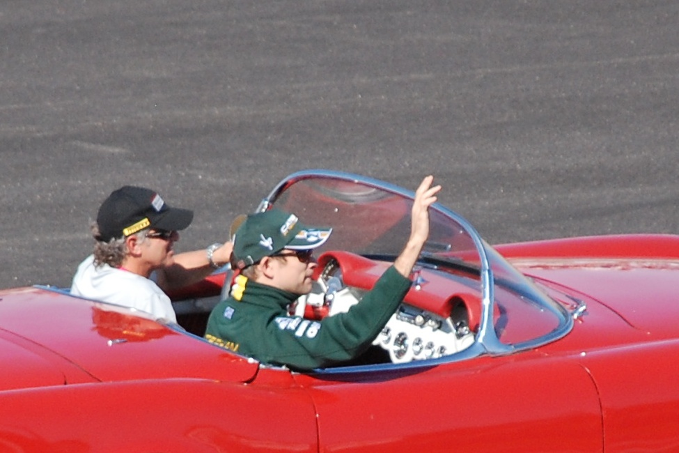 Vitaly Petrov, United States Grand Prix, Austin 2012